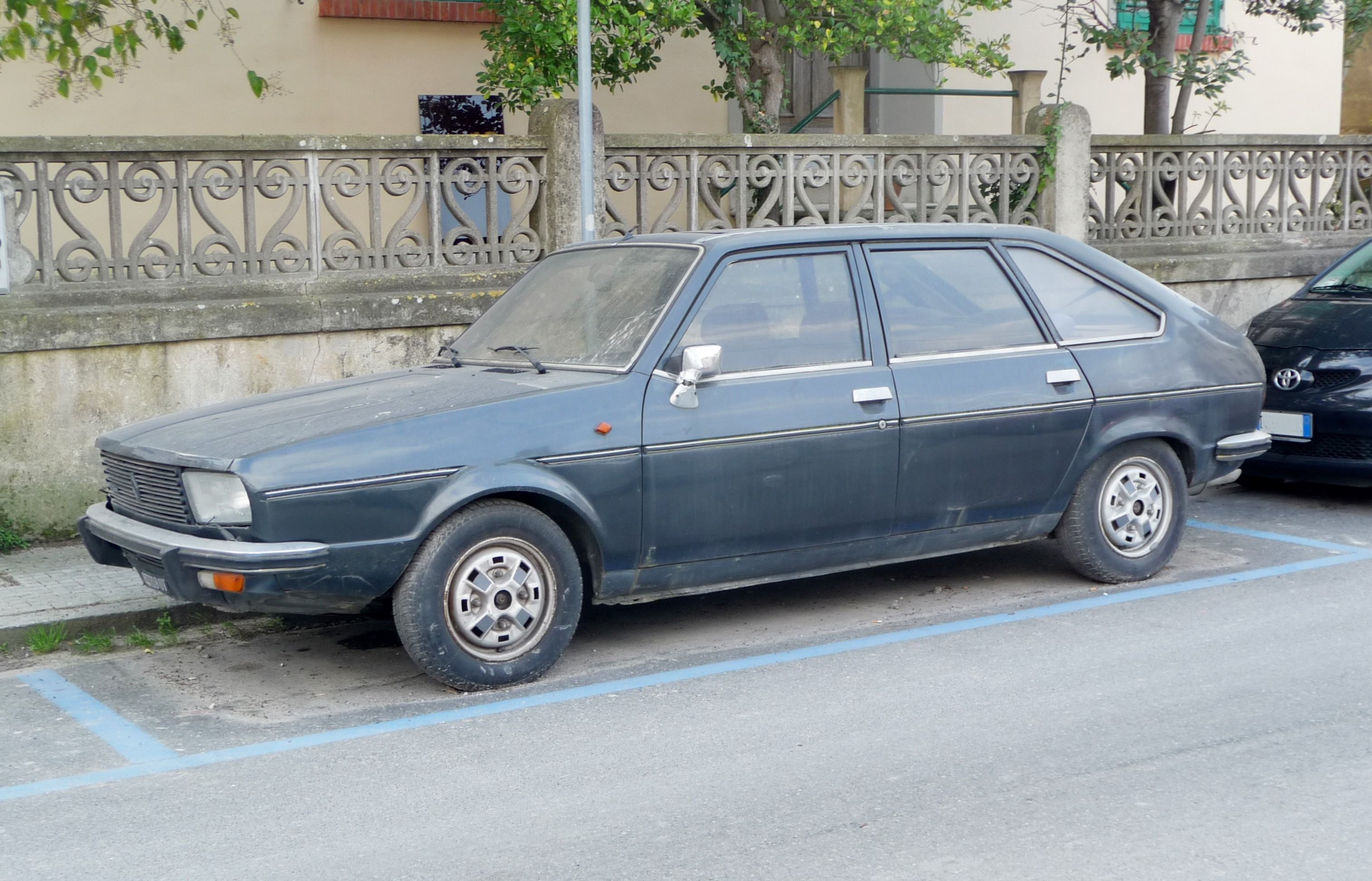 Renault 20